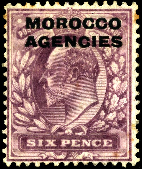 United Kingdom offices in Morocco 6-pence stamp of 1907